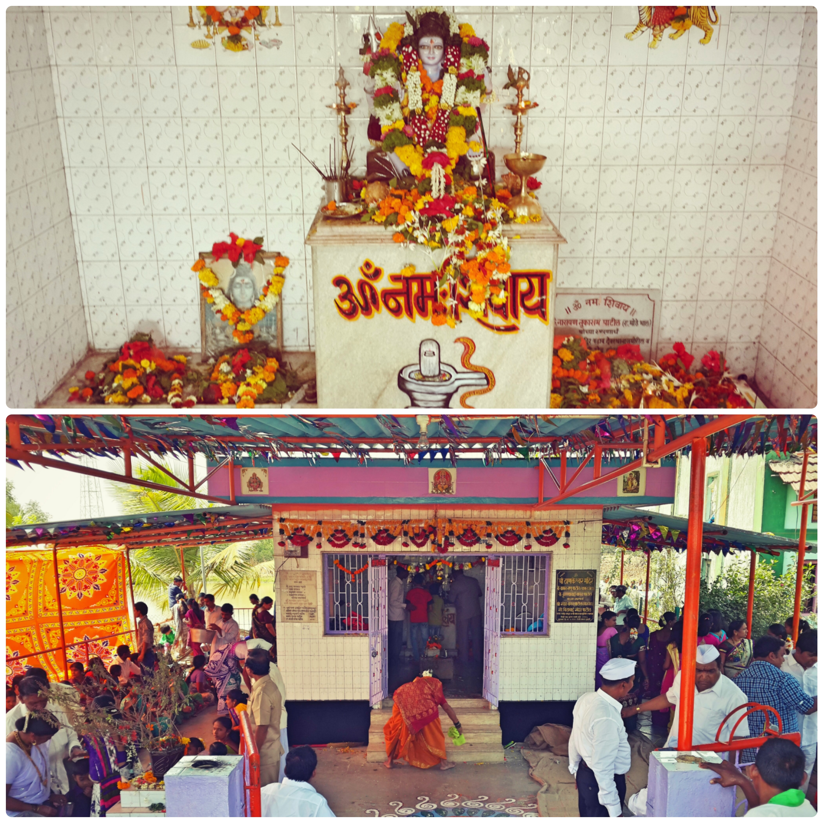 Shree Thankeshwar Devasthan is dedicated to Lord Shiva and is also the Kuldaiwat of all Patil Brothers from Vadhav village.